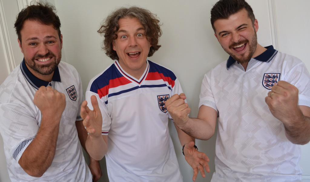 Tom and Dom (Bantams Banter) with comedian and TV host Alan Davies during recording of 'Brazilian Banter' for ITV.